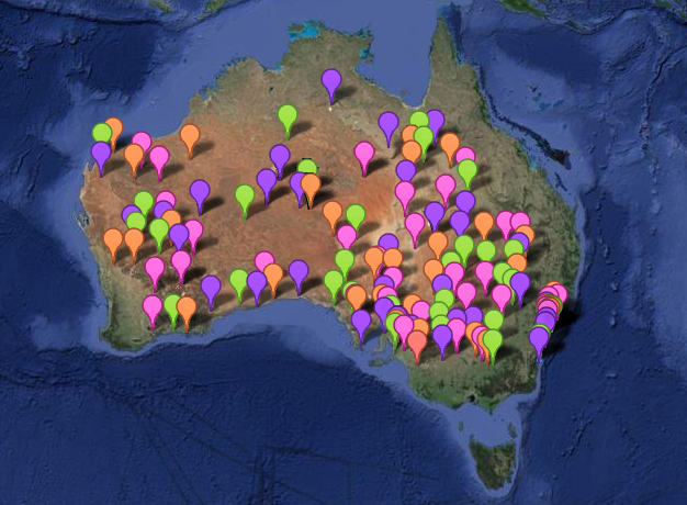 Locations of Bureau of Meteorology operated weather stations which recorded a temperature of 45°C or above during January 2013.